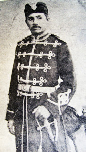 Raja Ali Kelana of Riau-Lingga, the Yamtuan of Riang Lingga between 1858-1899.